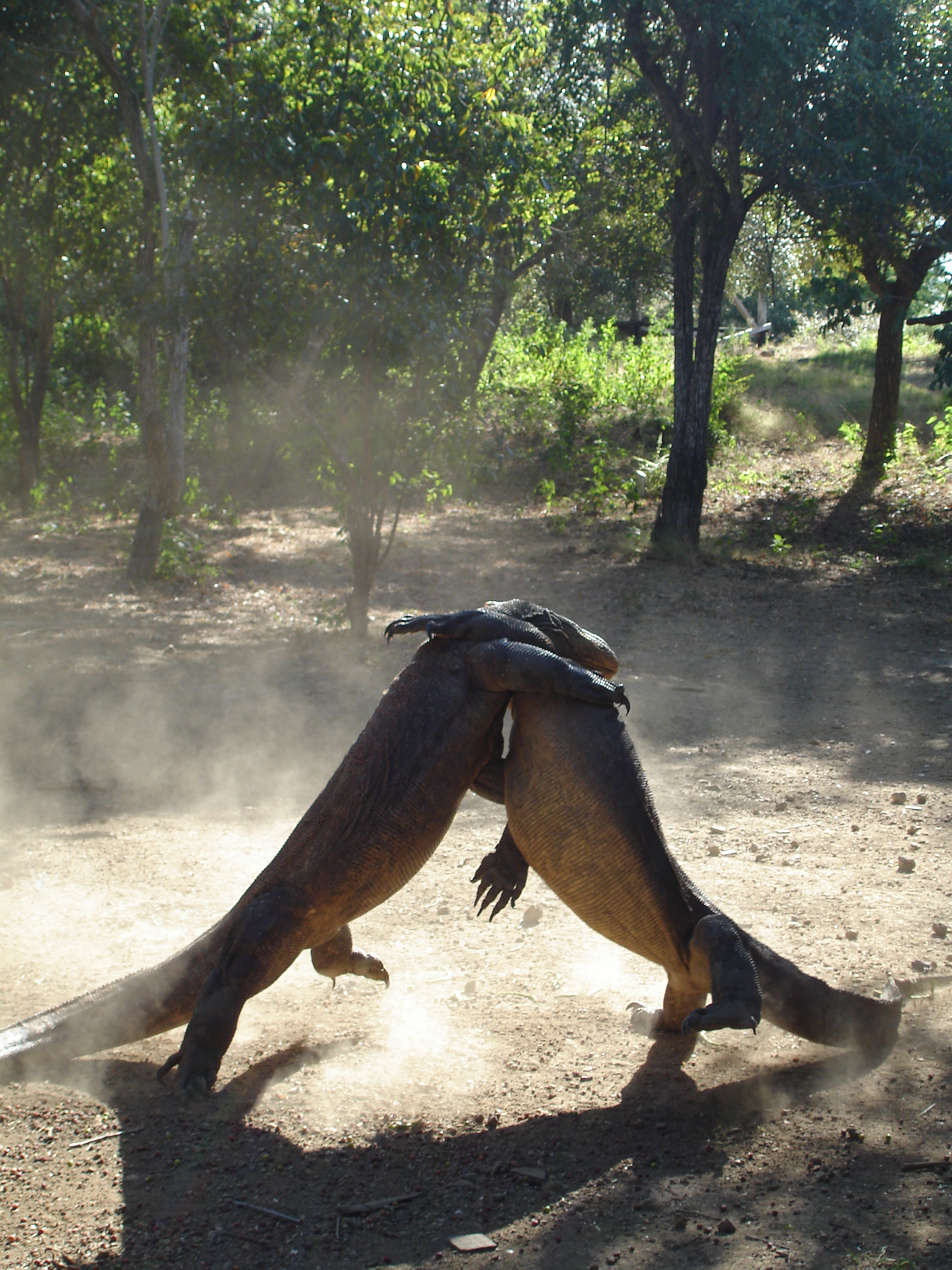 Male Komodo are wresting due to a mating season, the winner can mate the female one.